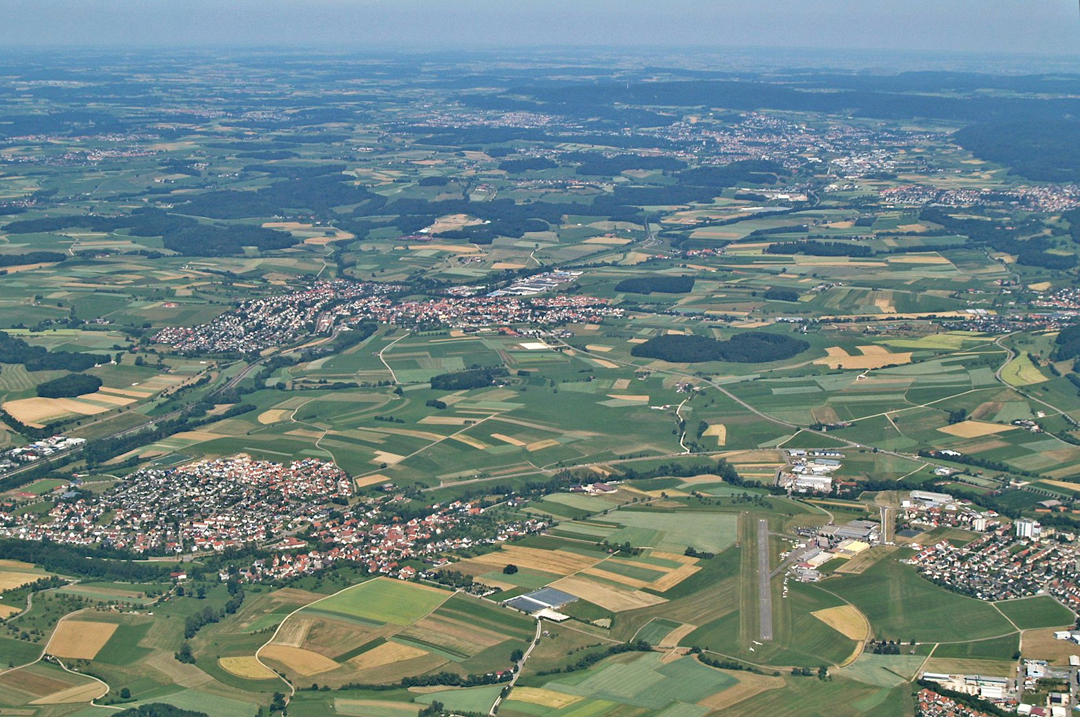 Aerial image of Ostalb region, Swabian Jura